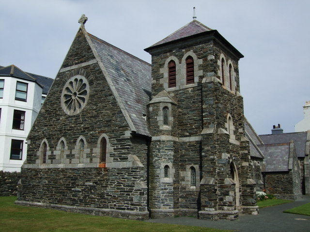 St Catherines Church - Port Erin